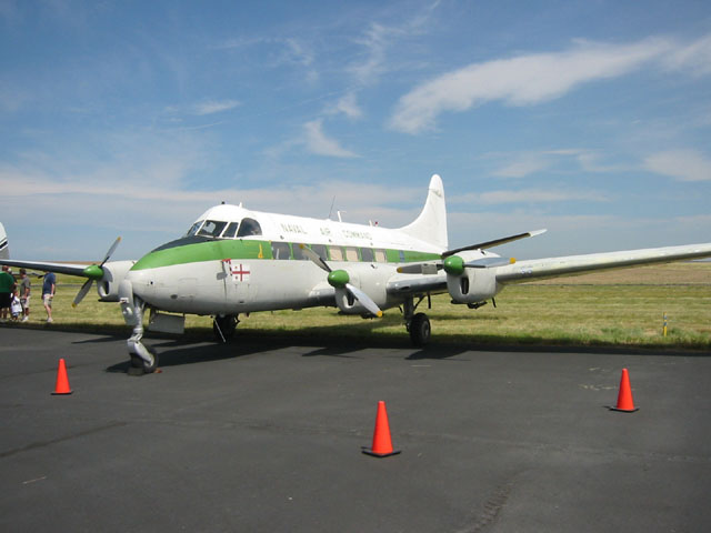 This aircraft is a DeHavilland DH-114 Heron, recently restored to flying condition by a private individual. I took this photograph at the EAA Rocky Mountain Regional Fly-in in 2005, with my own camera. As the photograph's author, I release all rights and welcome anyone to use this image for anything they wish, commercial or otherwise. (Note: This aircraft is a Heron 2 (not 1) because it has a retractable undercarriage)